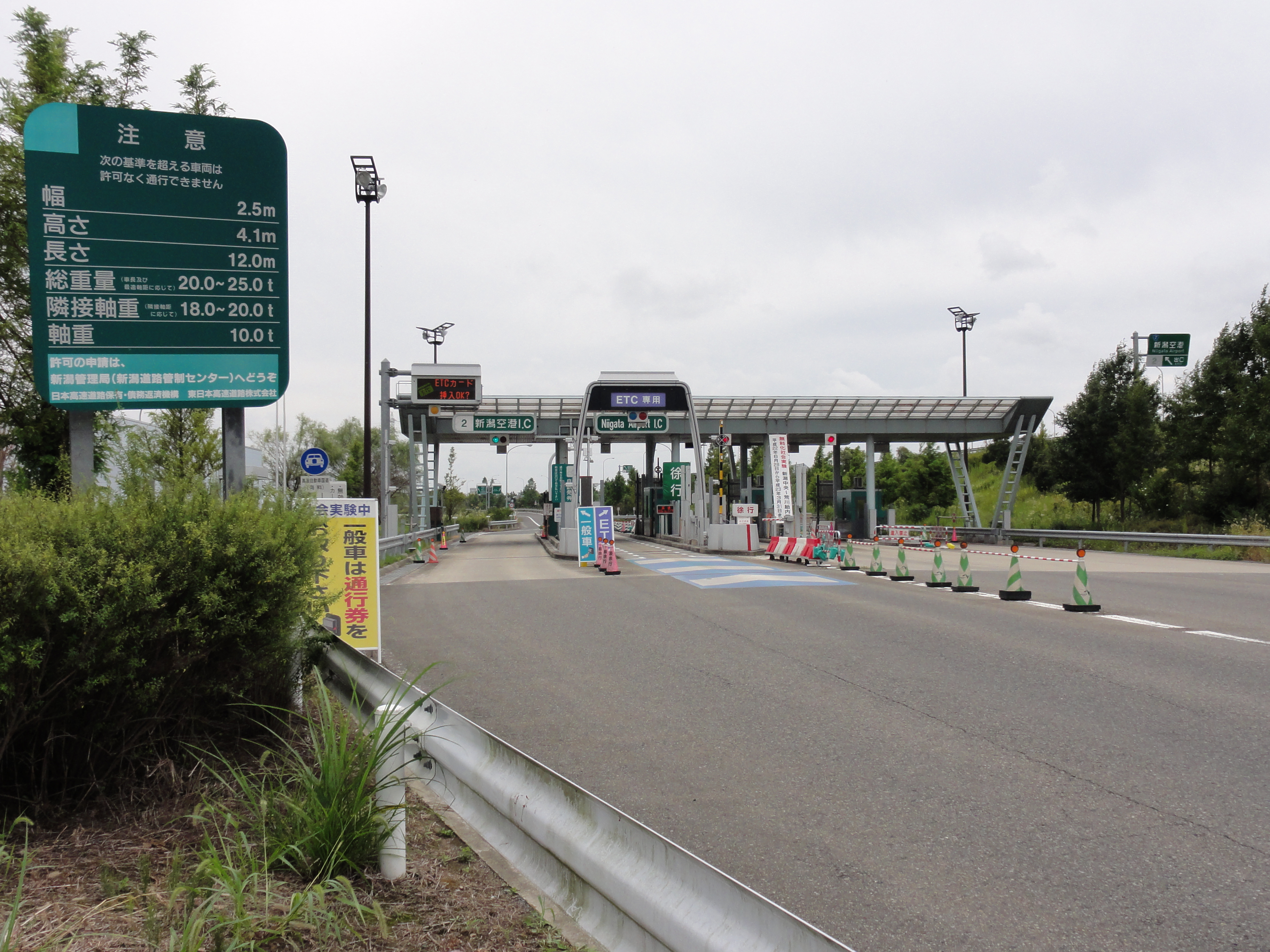 Niigata-Airport Interchange,Niigata Pref., Japan